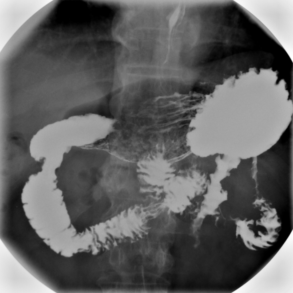 X-ray of the stomach with both positive (bariumsulphate) and negative (CO2)contrastmedia.